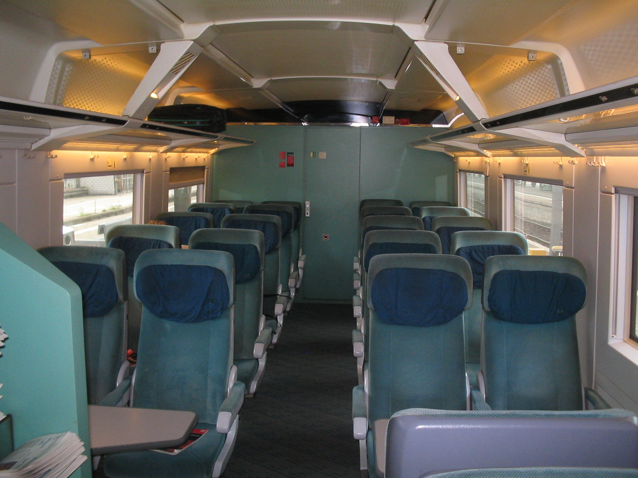 Passenger part of the driving van trailer of ICE-2 train set No. 236 "Jüterbog". Picture taken in ICE776 while standing at a platform in Frankfurt/Main central station before its departure to Oldenburg